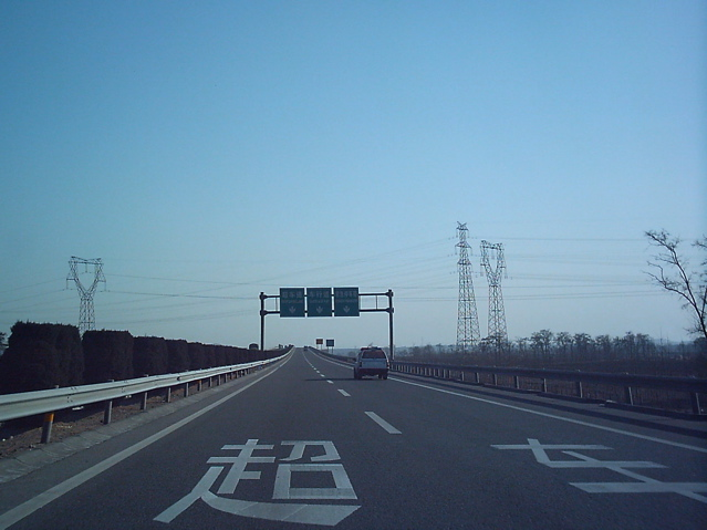 Tangjin Expressway in China (either in Hebei province OR in Tianjin)